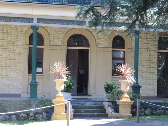 Pallister, Greenwich